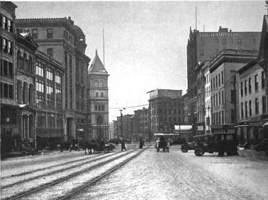 State Street looking east roughly from intersection with James Street. Albany, New York in mid-1910s, prior to building Delaware and Hudson Plaza (SUNY System Administrative Building).